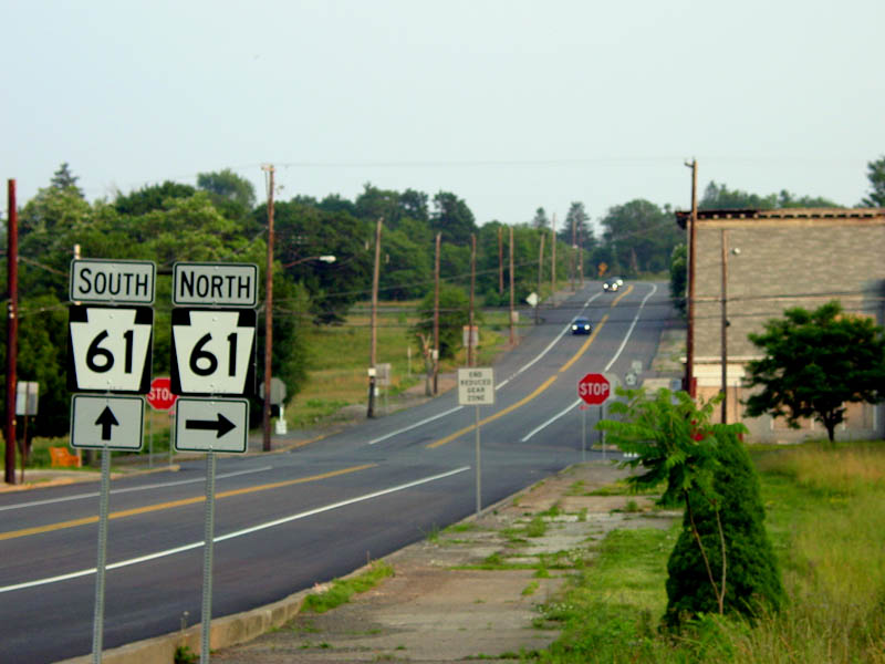 PA Route 61 in Centralia at the terminus of PA Route 42. The bend in the road in the background is where the highway was diverted onto a much smaller local road due to the heavy road damage from the underground fire. Picture: June 2002 (Building to right of stop sign is now gone)